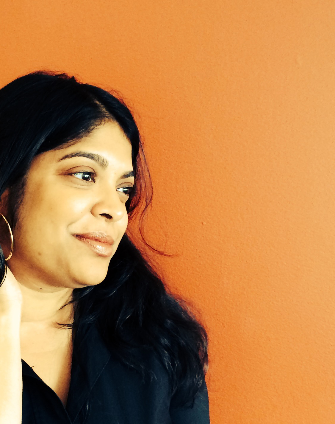 A picture of Niala Boodhoo, public radio host, when she was working at WBEZ in Chicago.